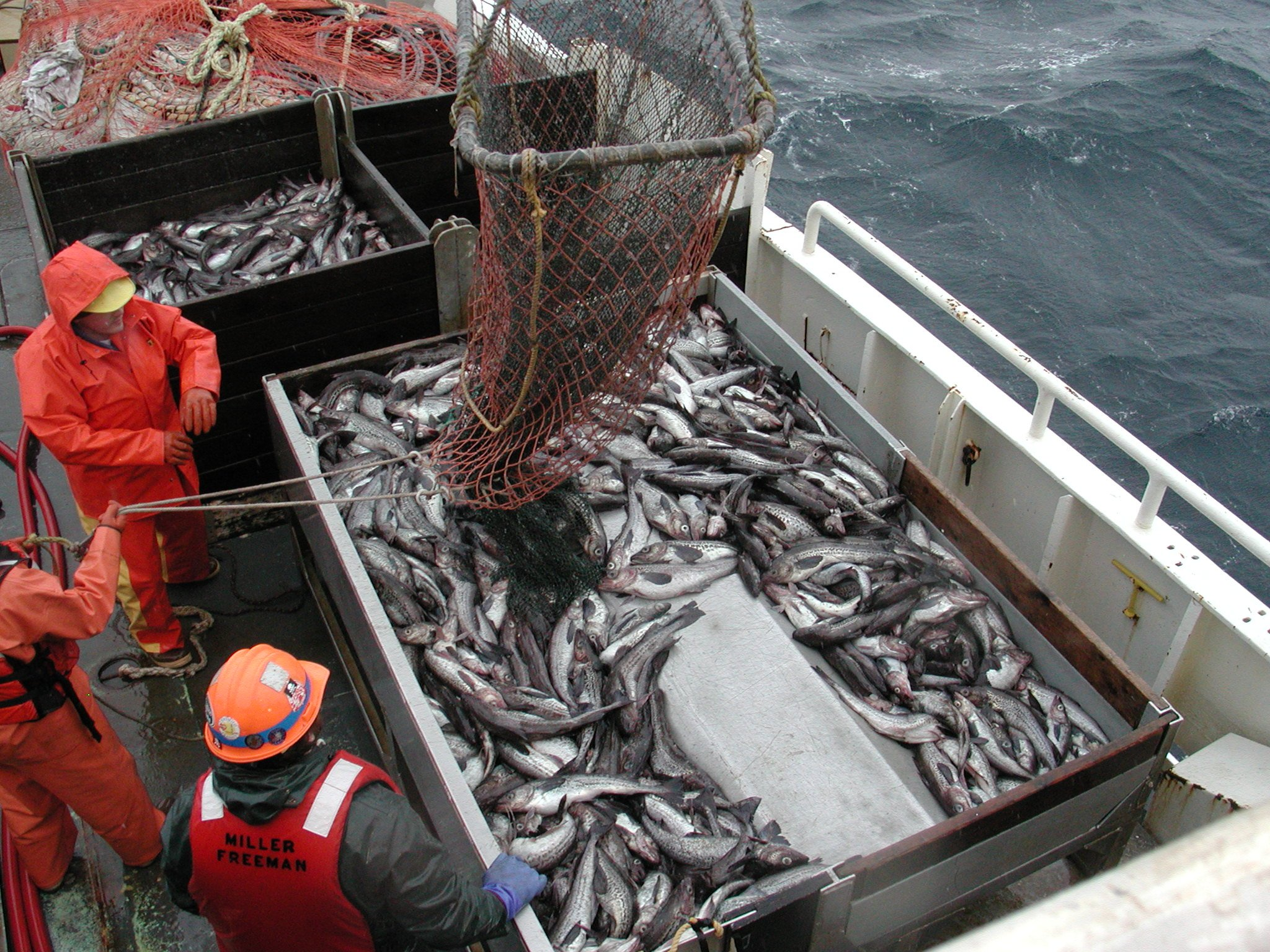 Theragra chalcogramma Trawling operations on the NOAA Ship MILLER FREEMAN Collecting sub-sample of pollock to dump in sorting table.